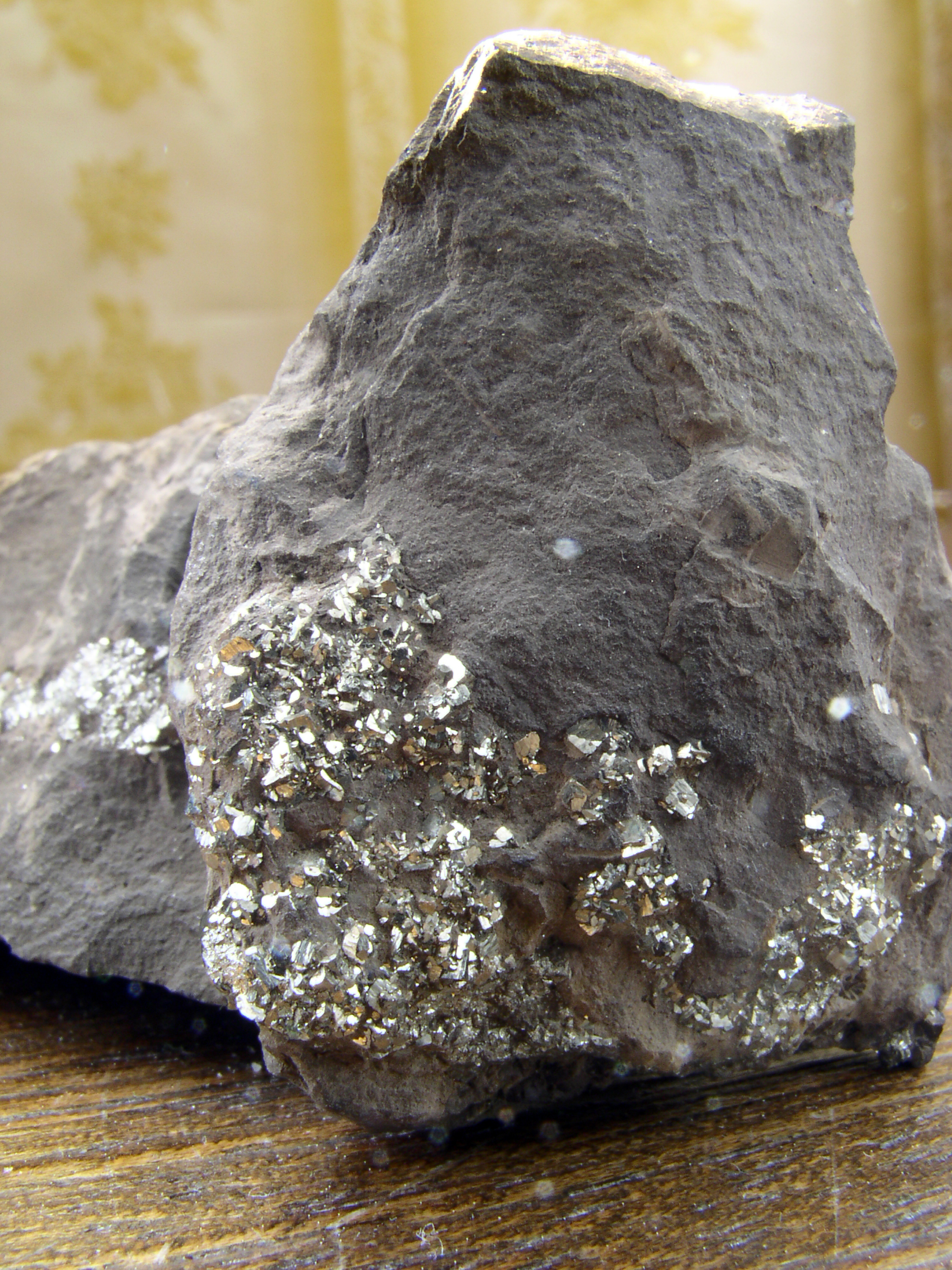 Pyrite (FeS2) inside graptolite argillite of the Türisalu Formation of Ordovician age. Found in the Türisalu cliff, Estonia.